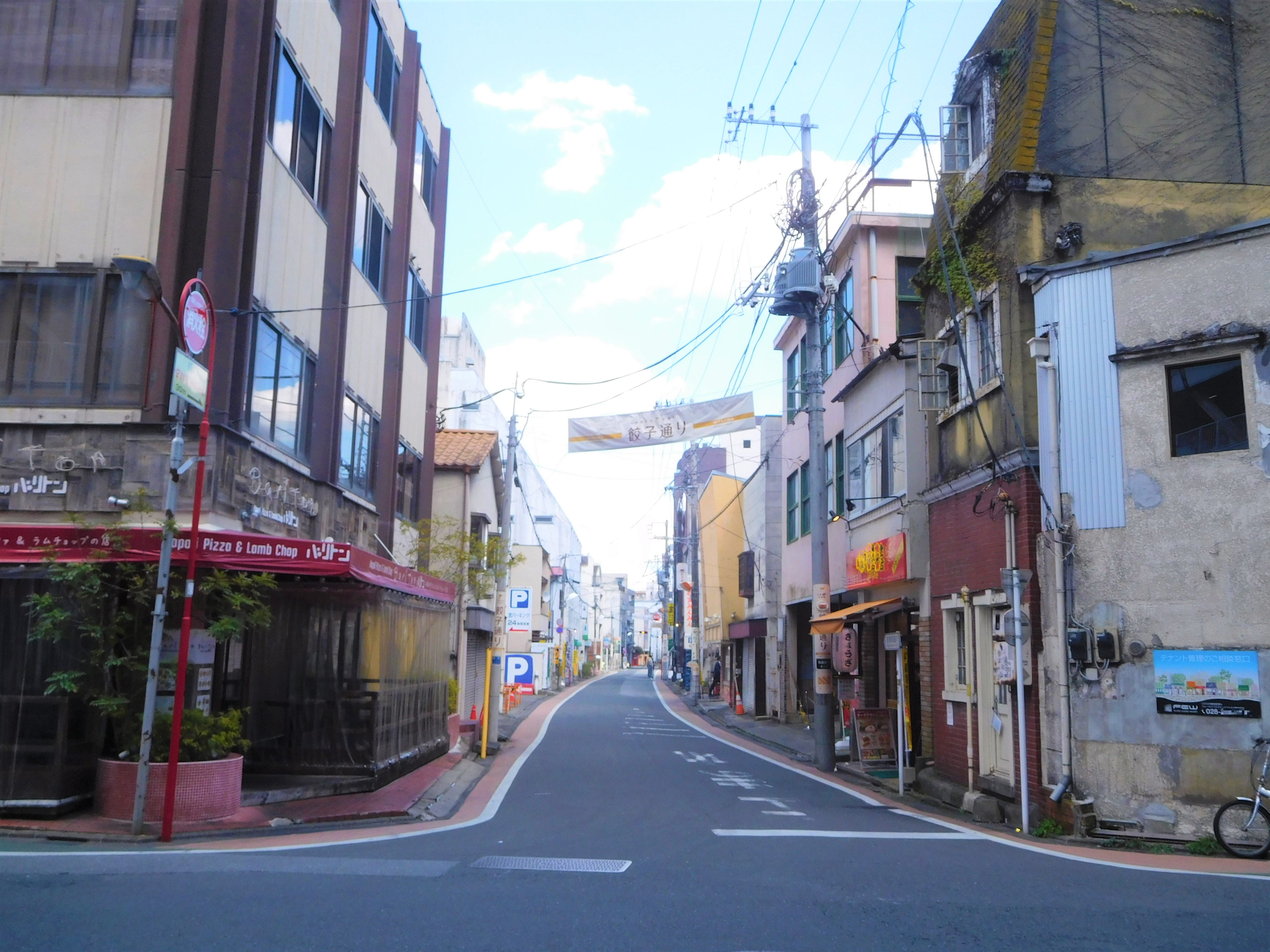 This is Gyoza Street view from Akamon street in Utsunomiya, Tochigi, Japan.